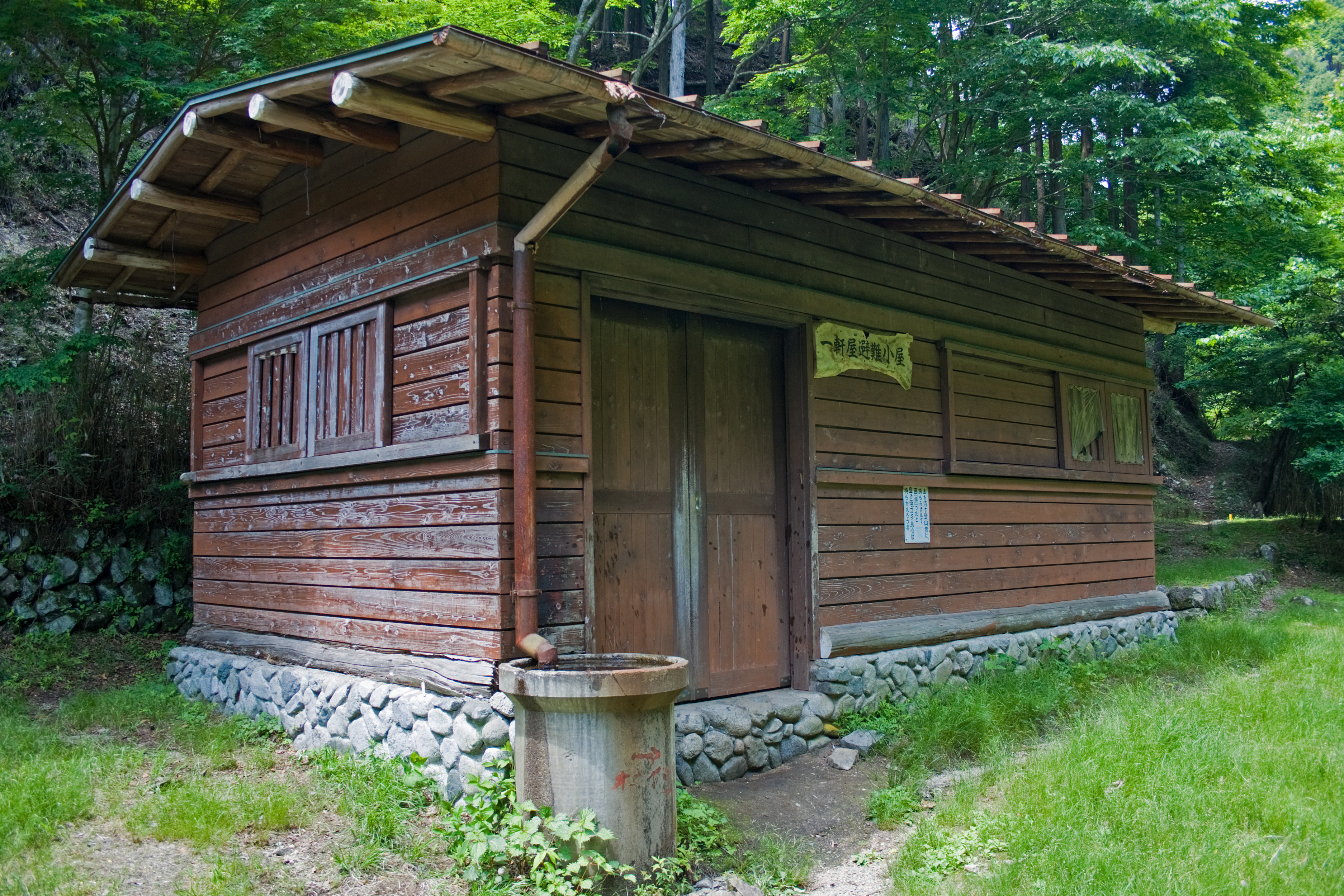 Ikkenya hinangoya ("Ikkenya shelter hut") in the Tanzawa Mountains, Kanagawa Prefecture, Japan